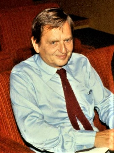 Olof Palme atteding a congress in Stockholm